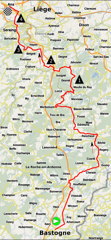 Map of Liège-Bastogne-Liège women 2017 (approximative)